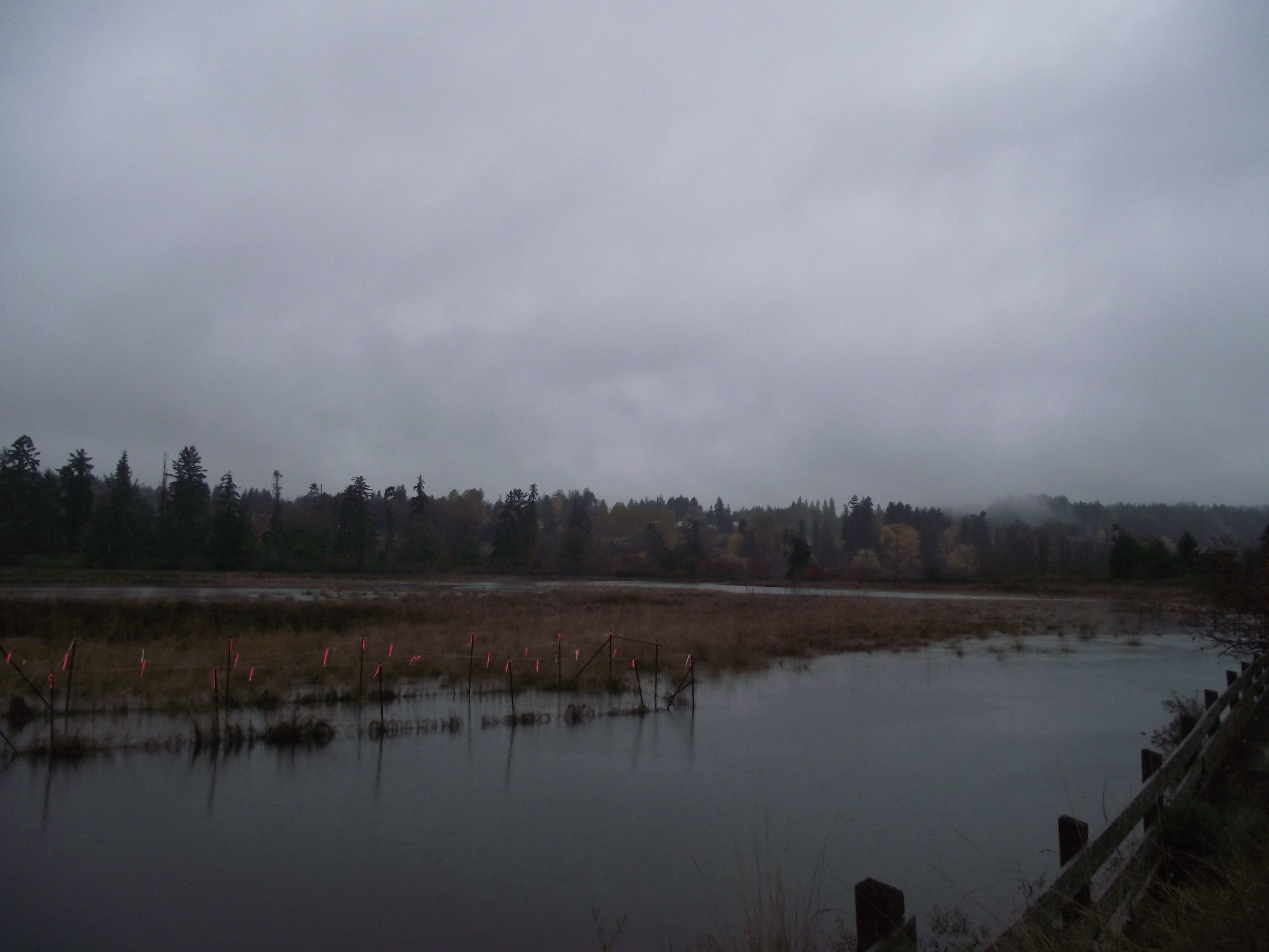 Marshall-Stevenson Wildlife Sanctuary, east, viewed at high tide in early fall, with historic Kinkade Farmstead in background.